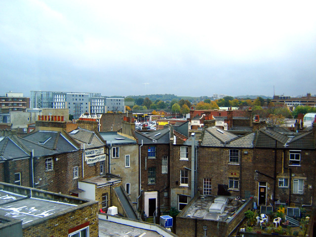 Peckham landscape looking southeast from the library, Peckham, Southwark, London. 29 October 2005. Photographer: Fin Fahey